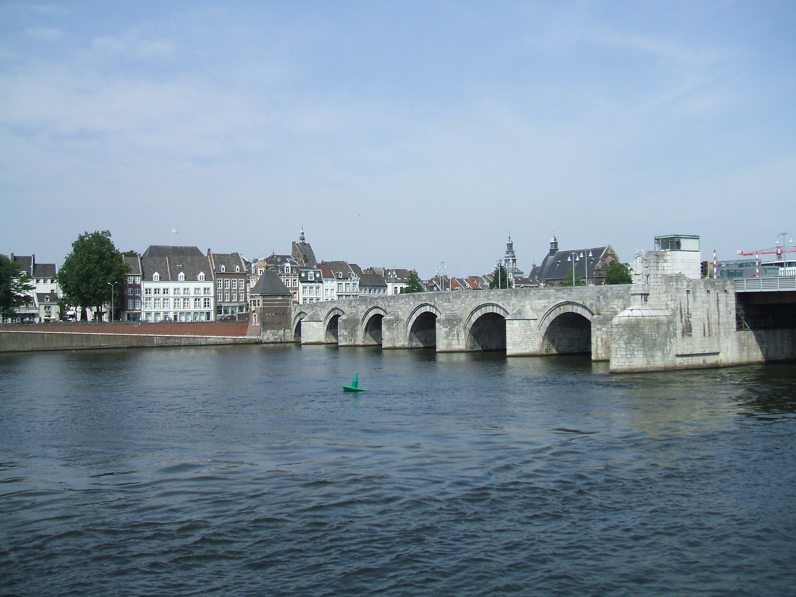 Sint Servatius bridge Maastricht, The Netherlands